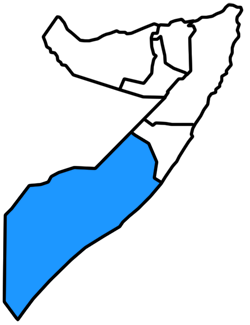 Location of Somali federally administered territory.